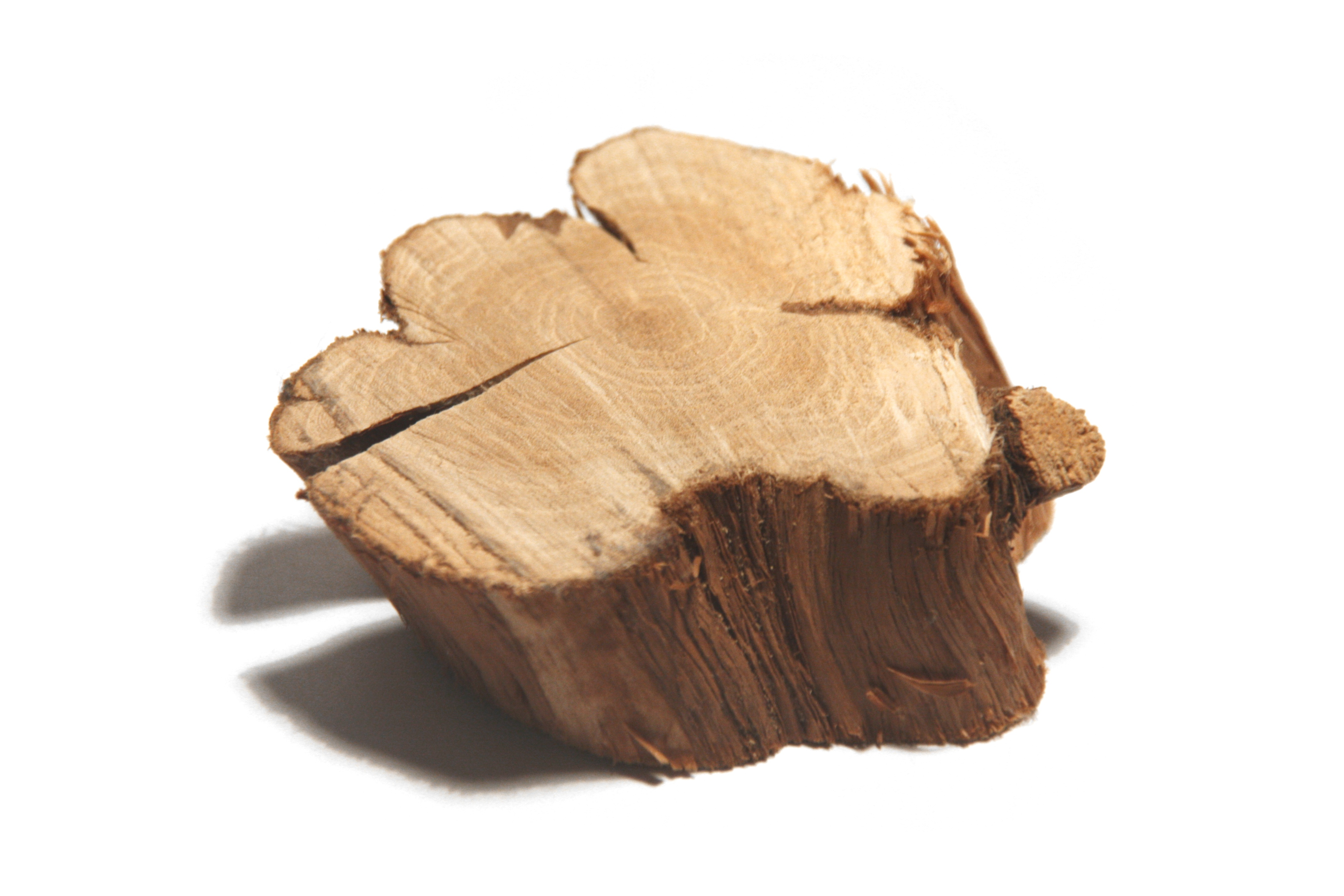 Section of the woody stem ~15 year old rosemary plant.